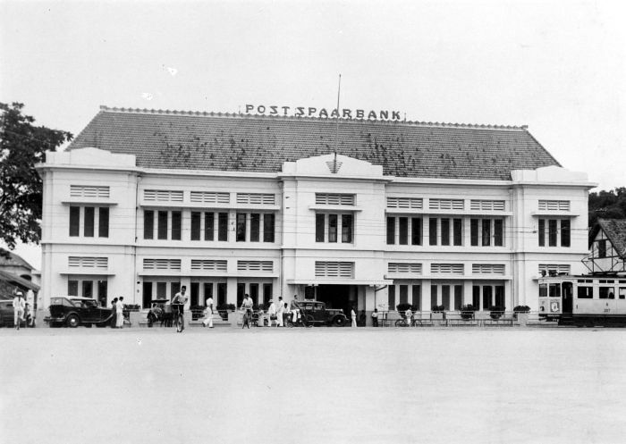 The Postoffice Savings-bank on the Harmonieplein in Batavia